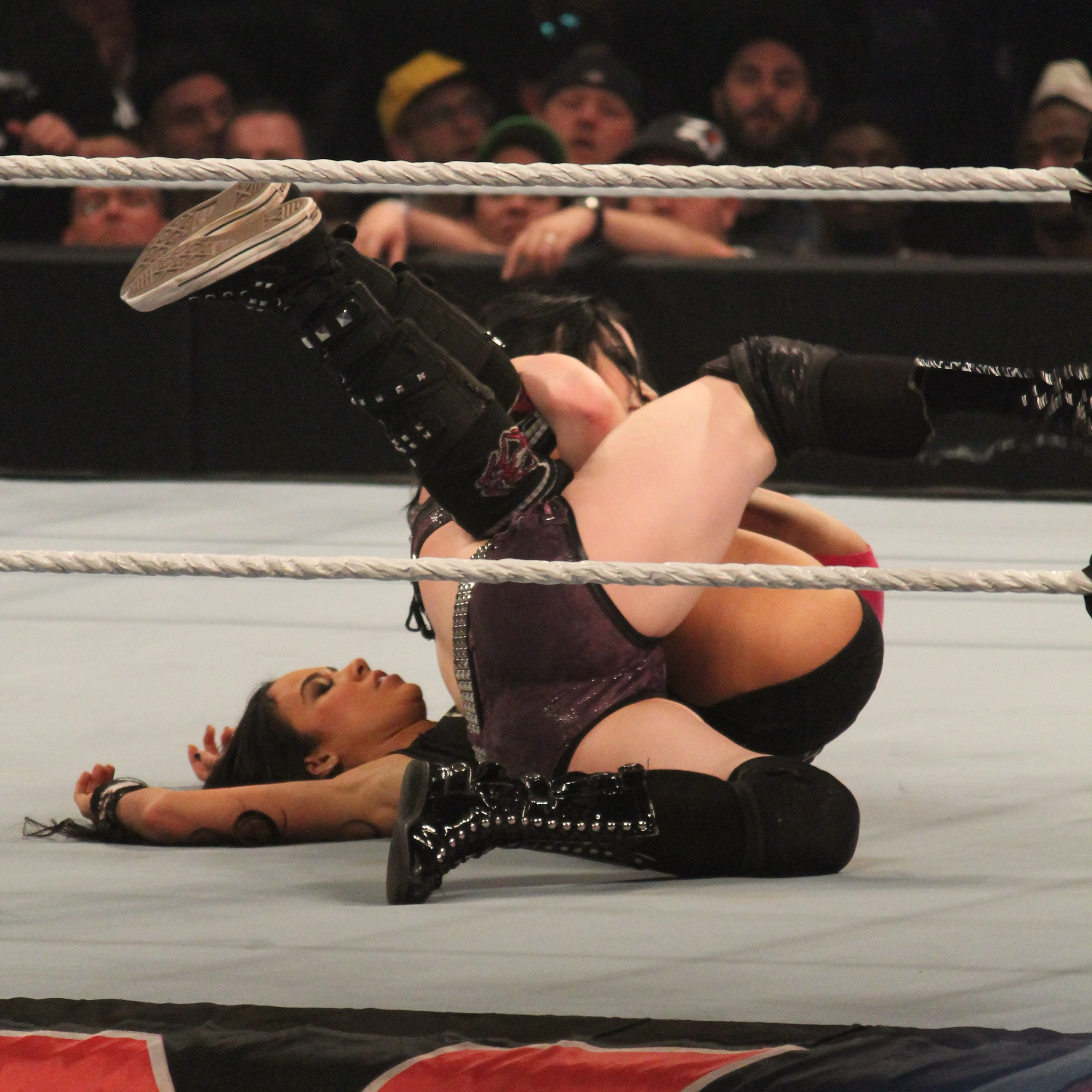 Paige pins a prone AJ Lee to capture the WWE Divas Championship and end AJ's reign at the post-WrestleMania Raw on 7 April 2014 in New Orleans, Louisiana.